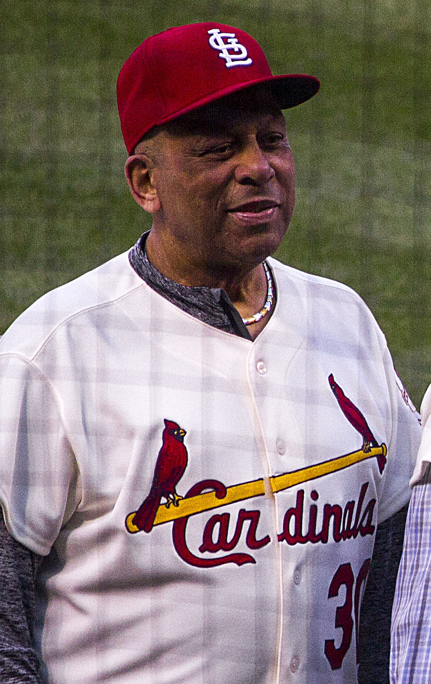 5-17-17 St.Louis Cardinals 1967 World Series Reunion.